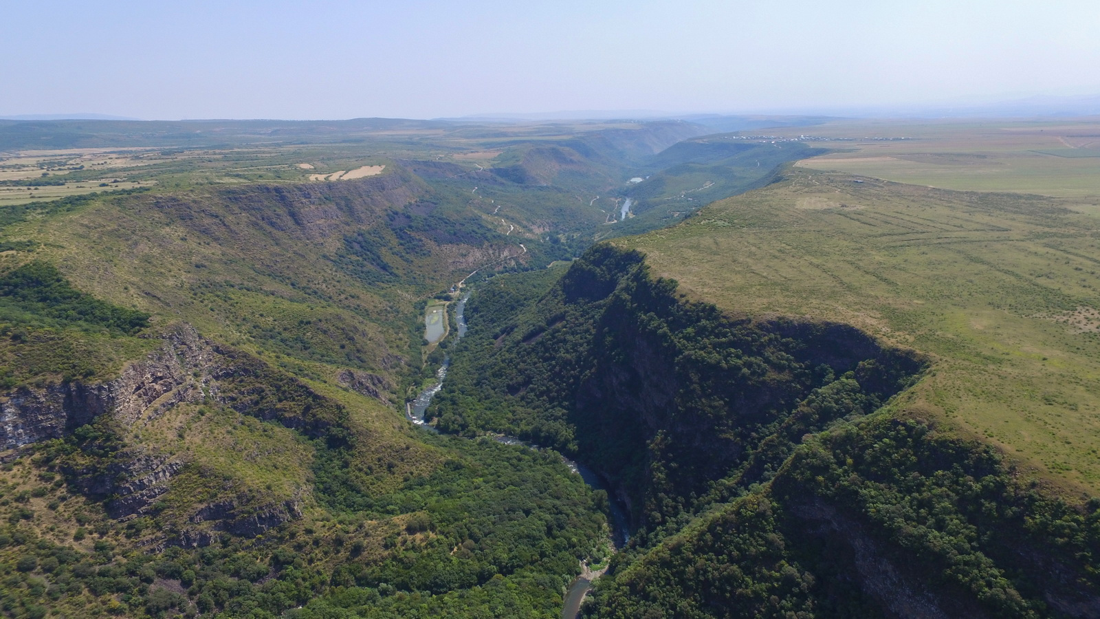 DCIM\101MEDIA\DJI_0093.JPG